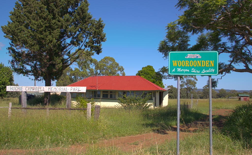 Wooroonden State School building in 2011.